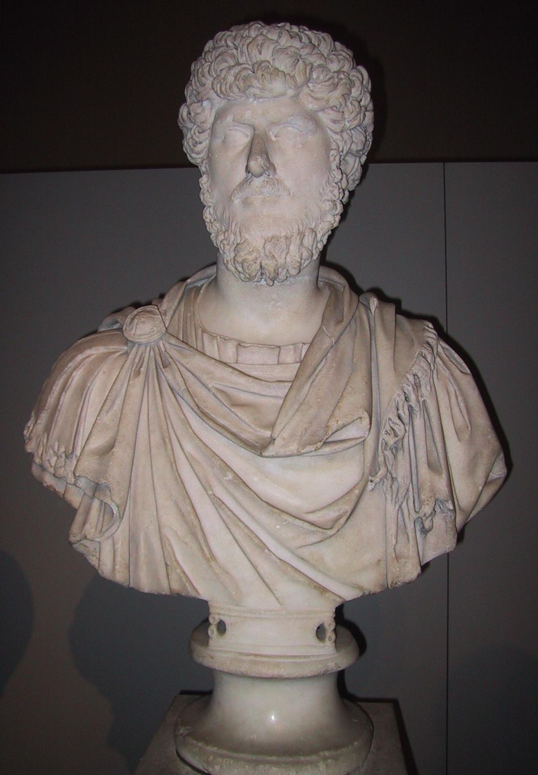 Portrait of Emperor Lucius Verus. Marble, ca. 161-170 AD. From Rome.